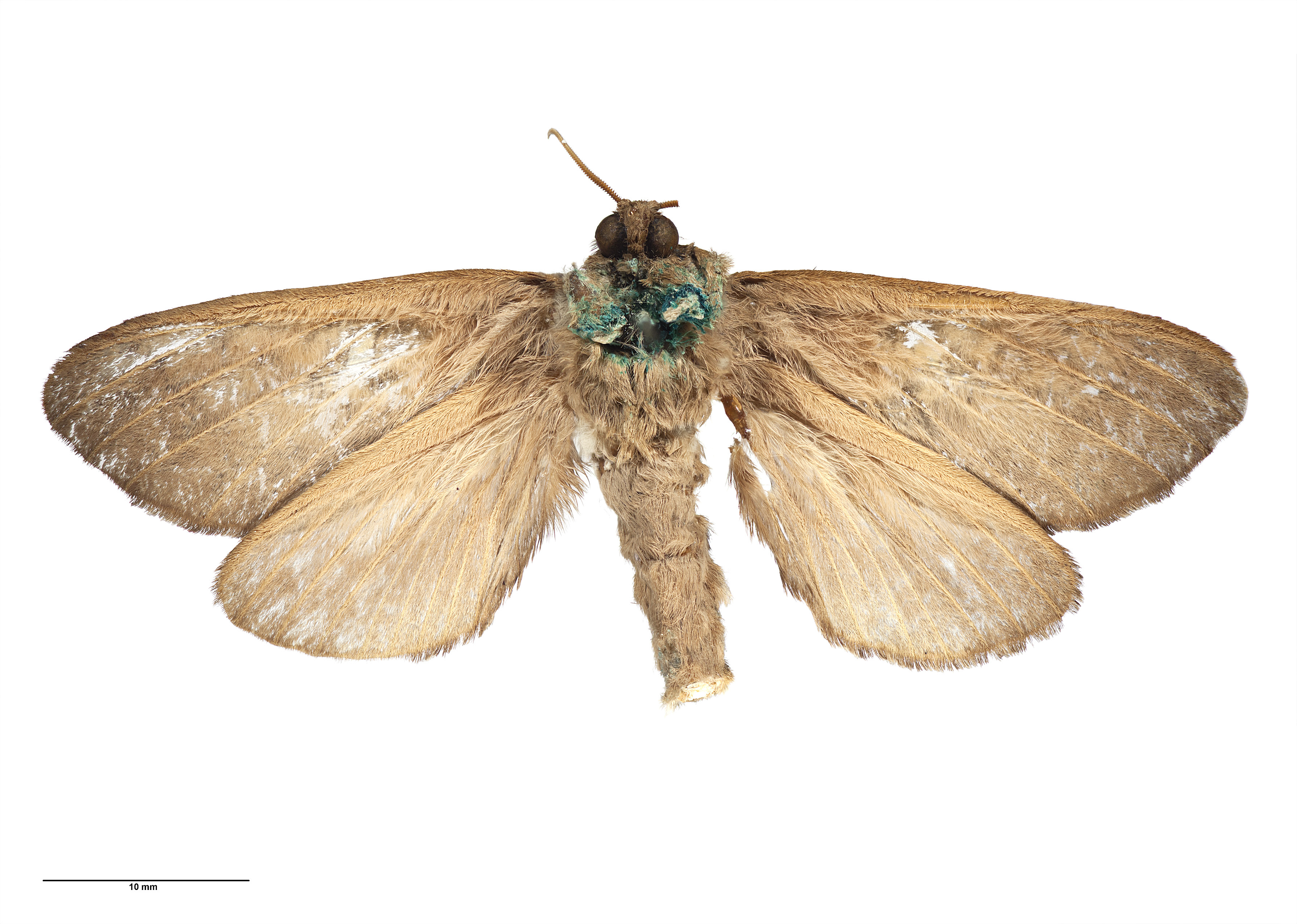 Ventral view of male holotype specimen of Dumbletonius unimaculatus AMNZ21983 held at the Auckland War Memorial Museum.